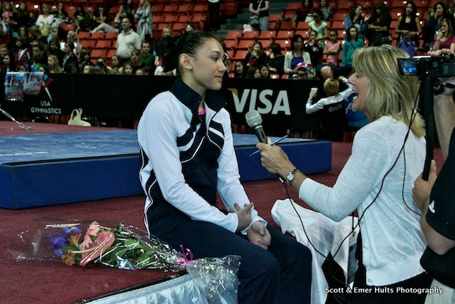 Kyla Ross